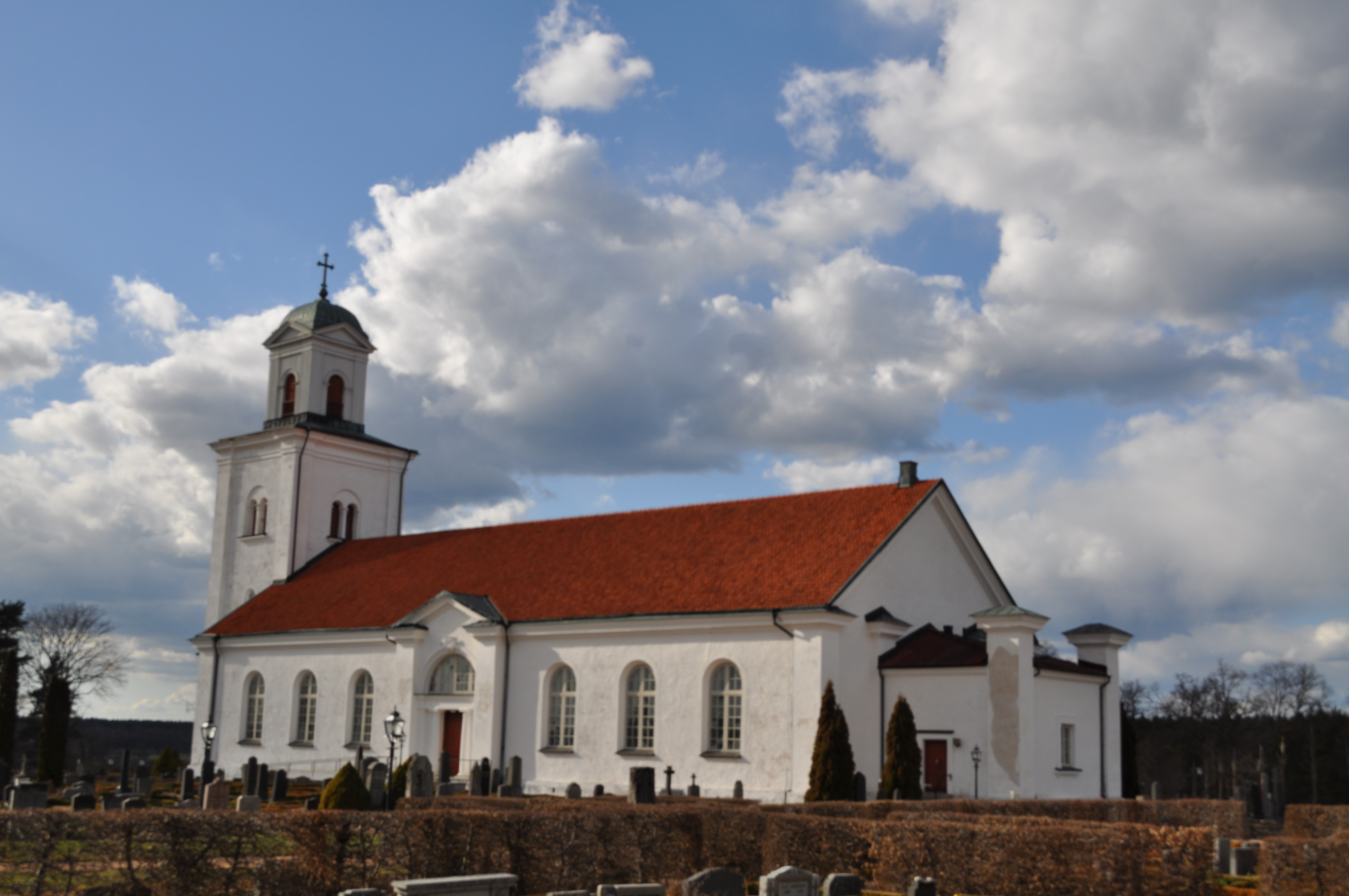 Tvings church - kyrka